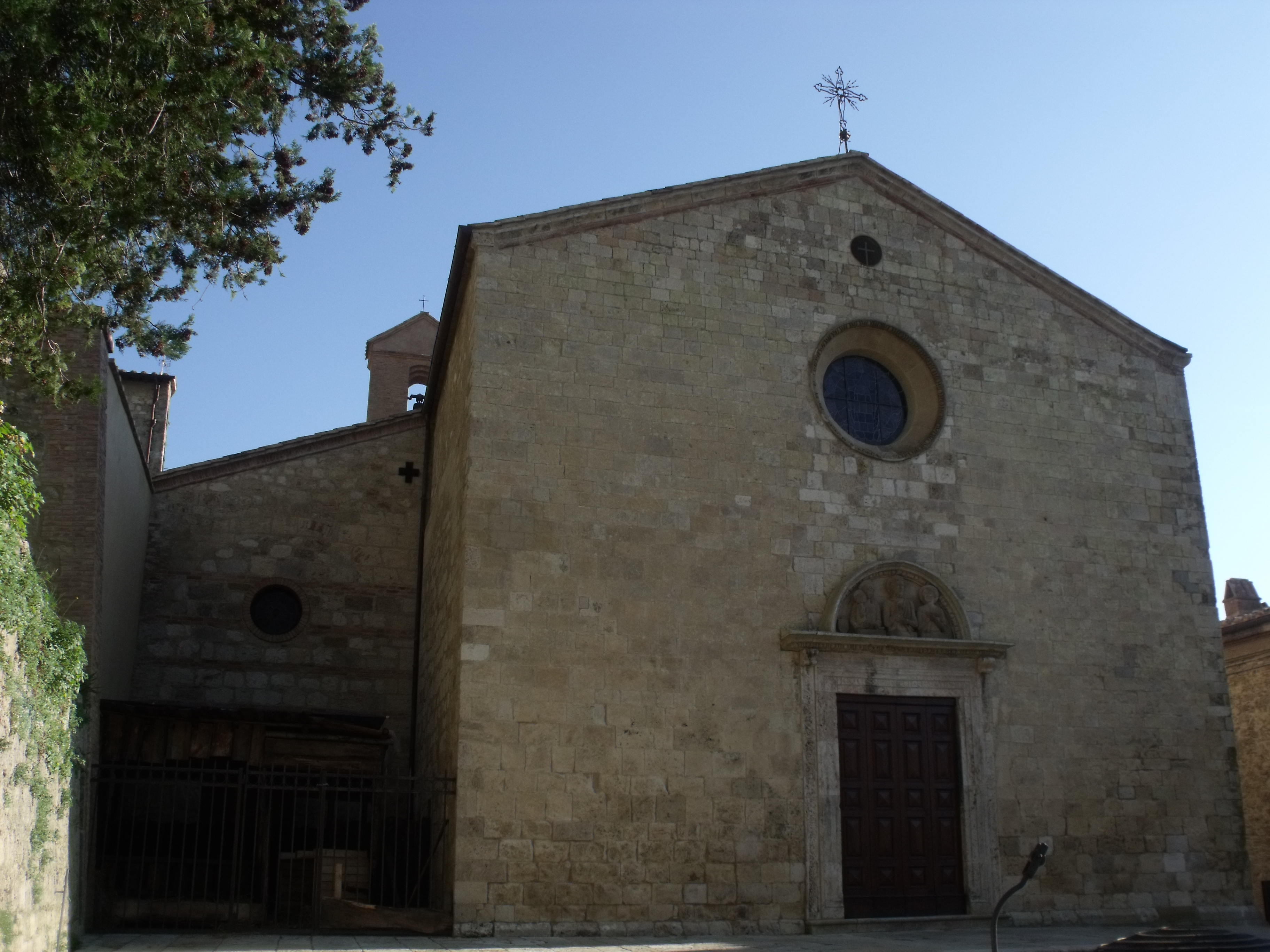 Church Collegiata della Santissima Trinità in Cetona (Borgo), Province of Siena, Tuscany, Italy